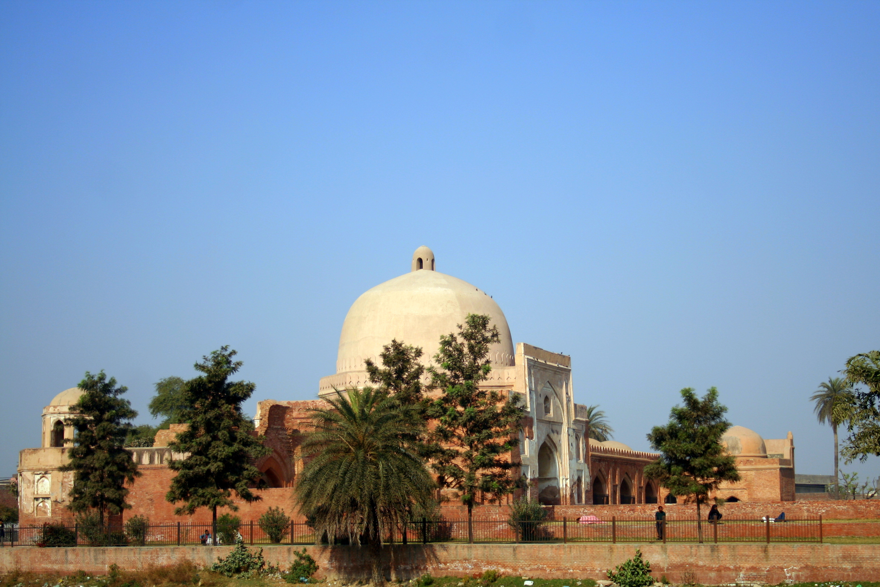 Kabuli Bagh Mosque with enclosure wall Kabuli Shah Mosque is situated about 2 kms away from Panipat,Acess is through broken road. Babur built this mosque. Named after his wife Kabuli Begum, it was constructed by the king to commemorate his victory over Ibrahim Lodhi. Six years later, when Humayun defeated Salim Shah, he got a platform called Chabutara Fateh Mubarak made around the mosque. The mosque is flanked by chambers on two sides and an inscription in Persian runs along the parapet. The main prayer hall, square on plan has annexes on sides and its high façade divided in panels is plastered with lime. Each annexe has nine bays, which are crowned with hemispherical domes sitting on low drums. Humayun, after defeating Salim Shah, added a masonry platform known as 'Chabutra-I-Fateh Mubarak'. It bears an inscription dating back to 1527 AD.